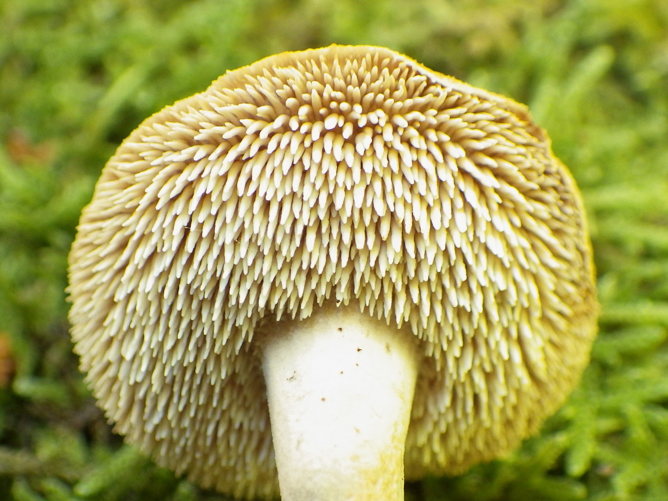 Hydnum rufescens group Image location: Matinha de Queluz, Sintra, Portugal Habitat dominated by Quercus suber. Recognized by sight For more information about this, see the observation page at Mushroom Observer.